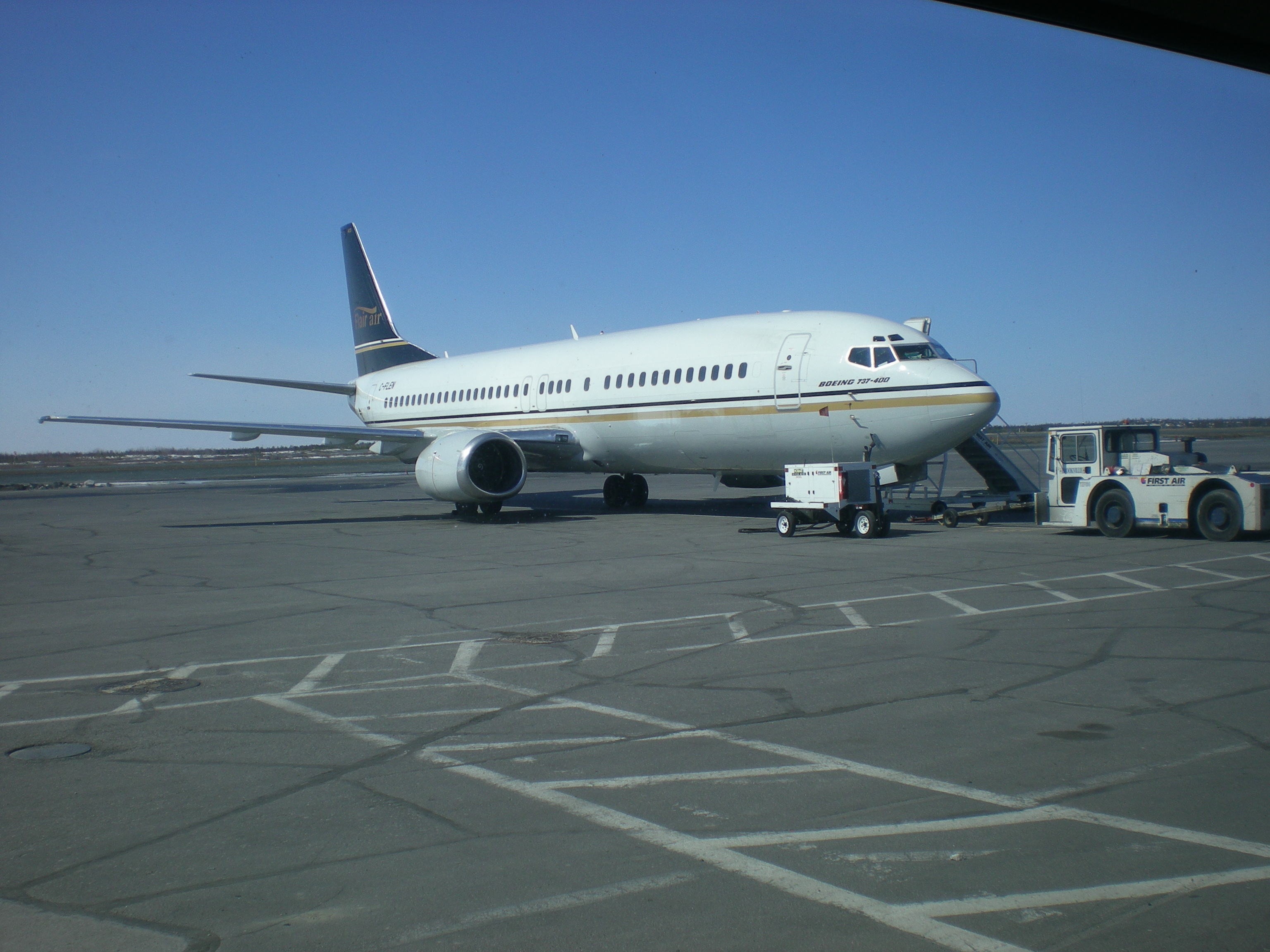 A Flair Airlines B737